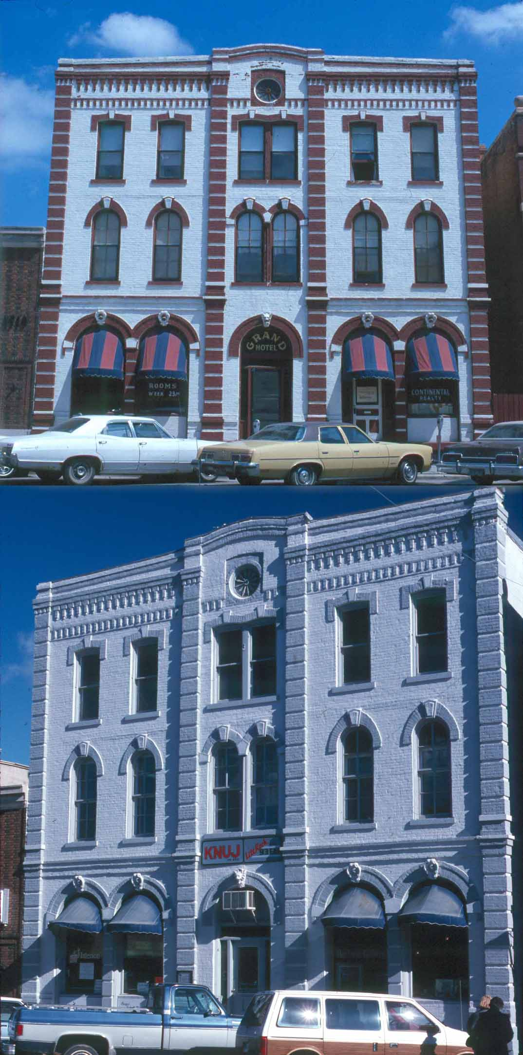 Two views, two paint jobs, Grand Hotel, New Ulm, Minnesota, USA. Digitalized slides from the Minnesota State Historic Preservation Office at the Minnesota History Center.